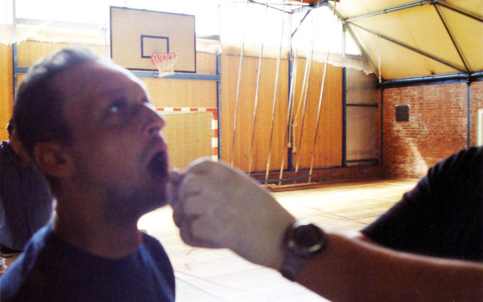 the taking of a saliva sample